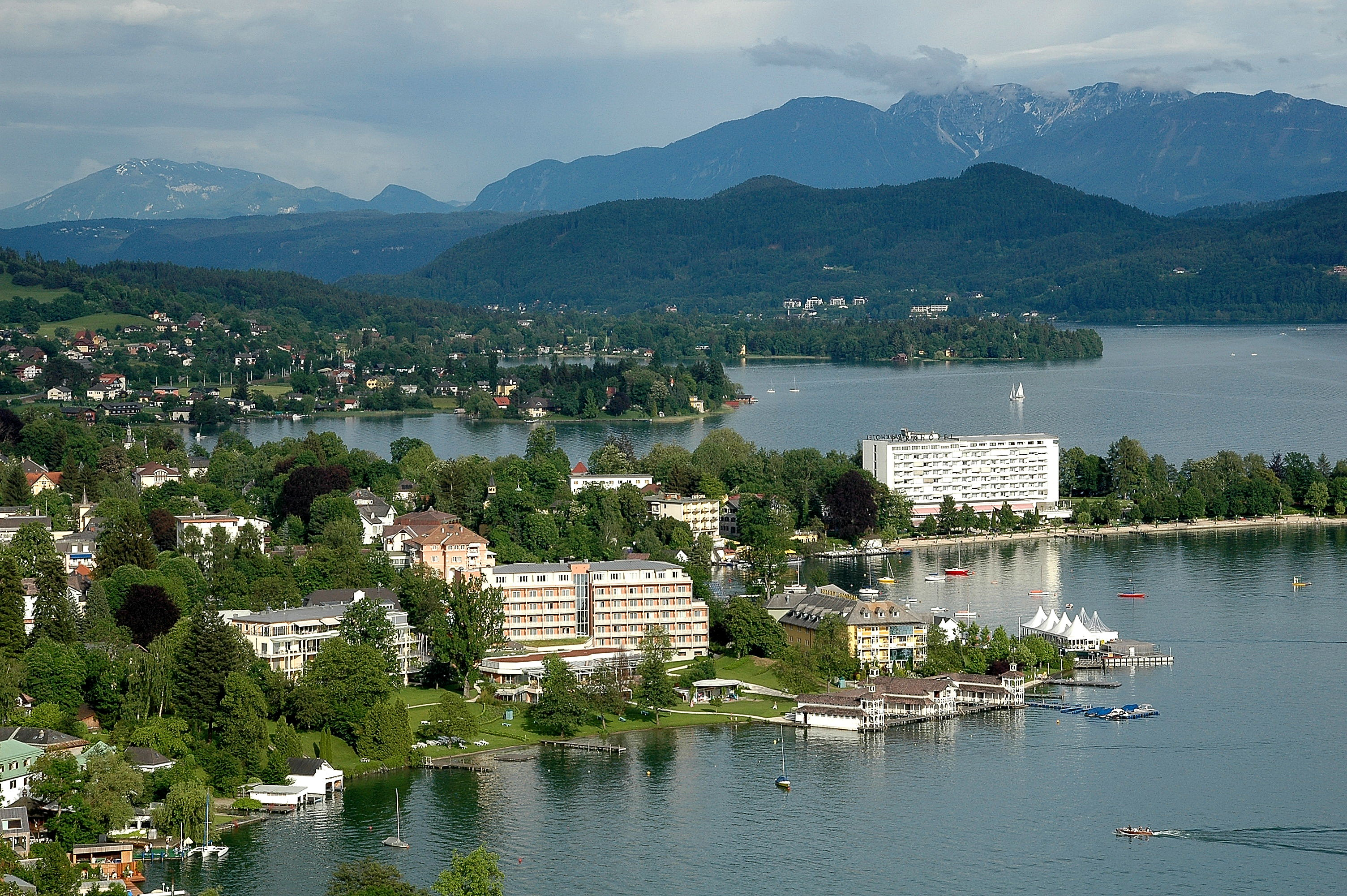 View from the High Gloriette at the west bay with the Werzer-baths and the Parkhotel, municipality Poertschach on the Lake Woerth, district Klagenfurt Land, Carinthia, Austria